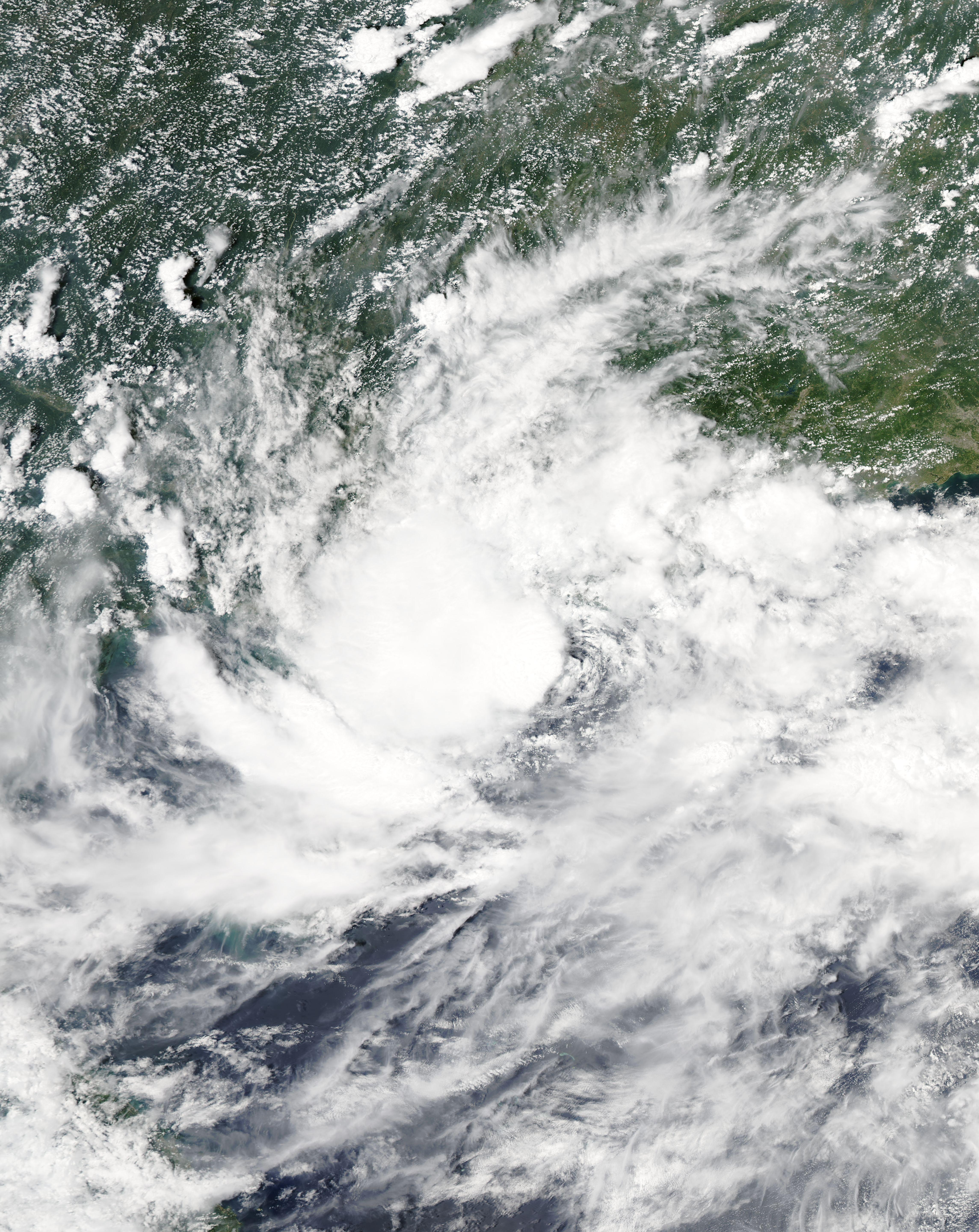 JMA Tropical Depression 20 intensifying south of Guangdong, China on August 12, 2018